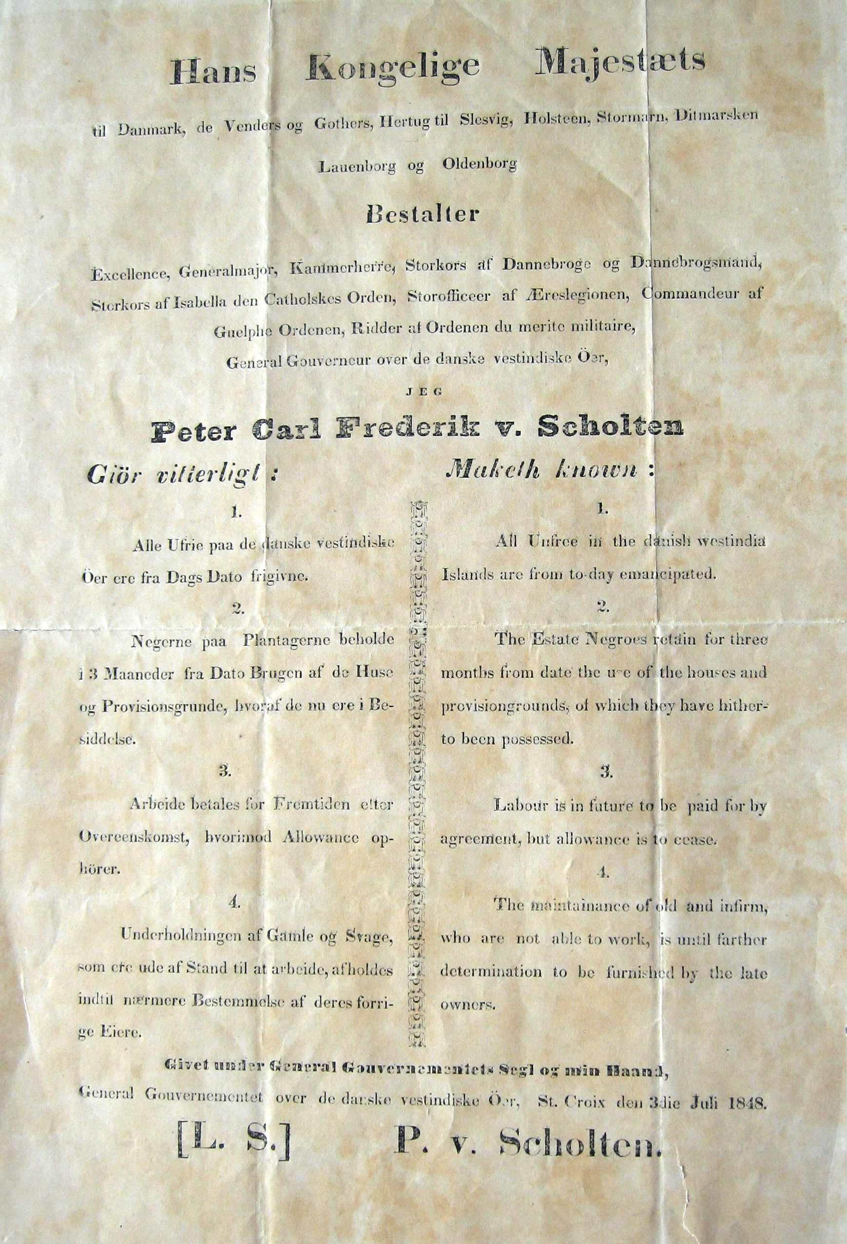 Governor-General Peter von Scholten had this bilingual poster printed immediately on the night of July 3-4, 1848, publicizing his decision to abolish slavery effective immediately. The poster was put up everywhere in the Danish West Indies in the days to come. (The Danish National Archives).